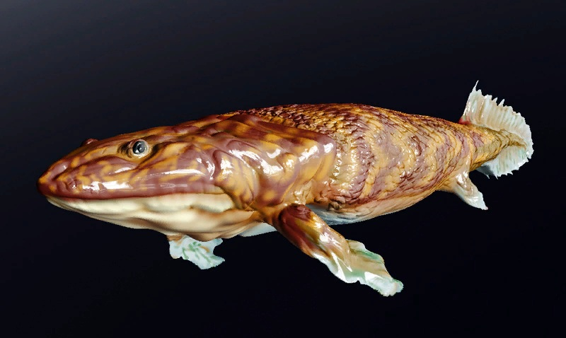 Reconstruction of the prehistoric fish Pandericthys